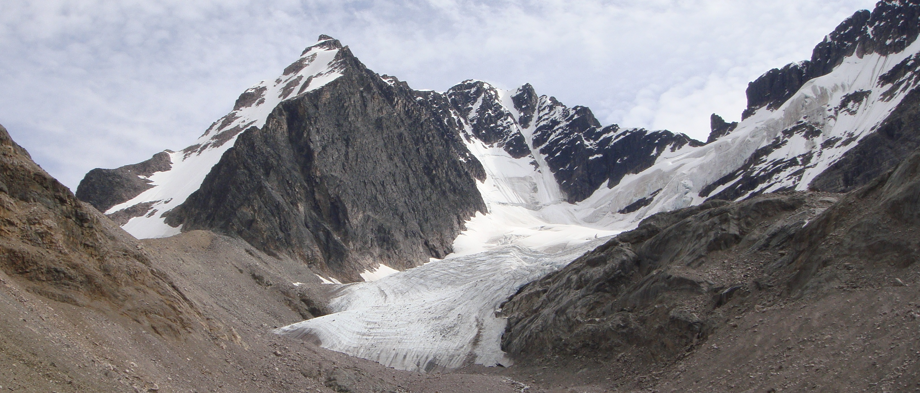 Mount Belanger is located in the Canadian Rockies near the town of Jasper.